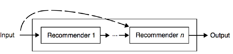 Sketch of a recommendation system